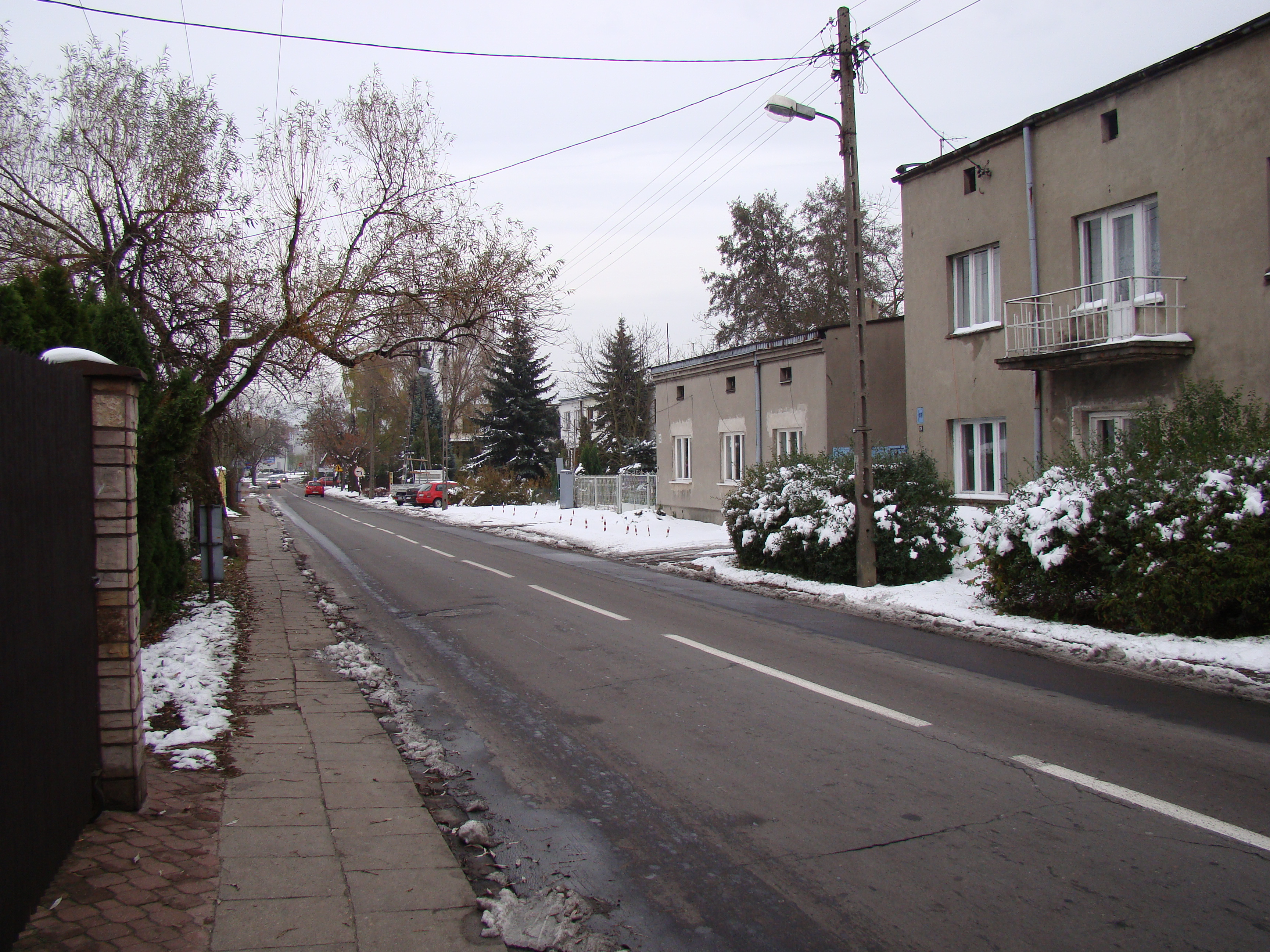 Obywatelska Street in Łódź